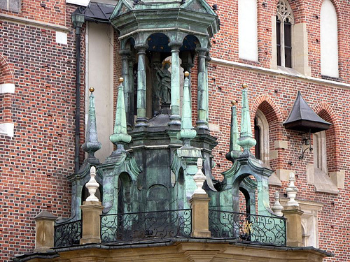 Unknown